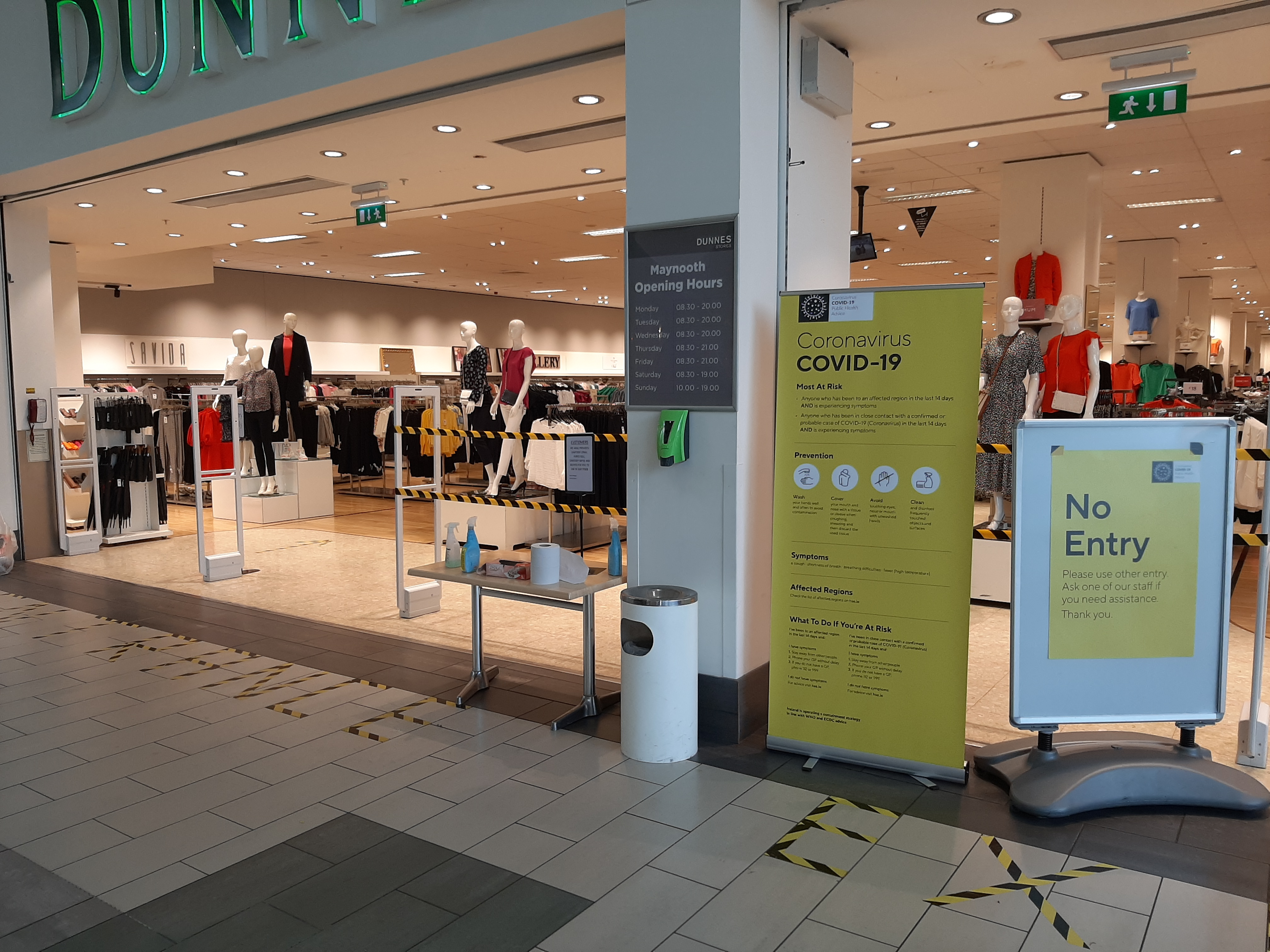 An Irish grocery store showing a one-way system, instructions on social distancing, disposable gloves for shoppers, and supplies to clean trolleys